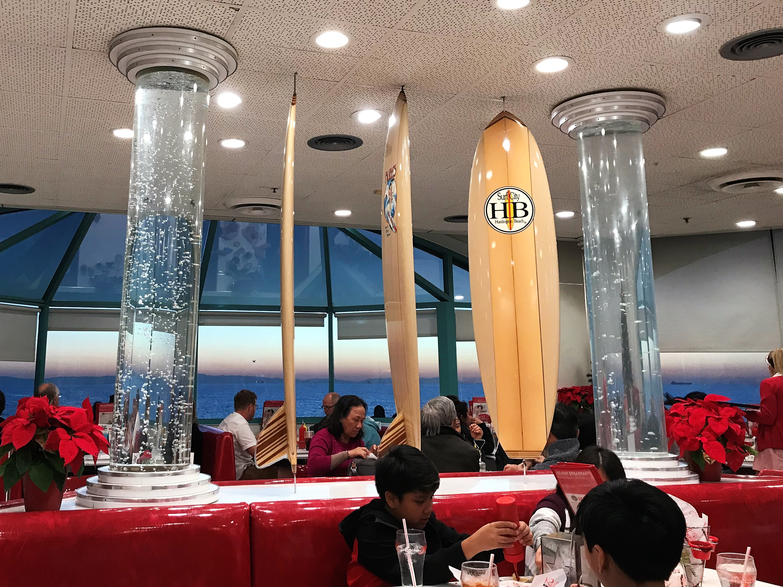 Interior Ruby's Diner Huntington Beach at sunset